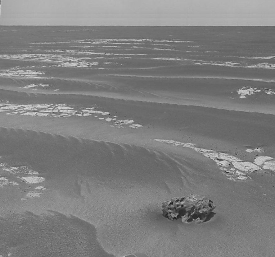 A cropped straightened and sharpened version of PIA12254: Opportunity Finds Another Meteorite Target Name: Mars Is a satellite of: Sol (our sun) Mission: Mars Exploration Rover (MER) Spacecraft: Opportunity Instrument: Navigation Camera Product Size: 1024 x 1024 pixels (width x height) Produced By: JPL Full-Res TIFF: PIA12254.tif (1.05 MB) Full-Res JPEG: PIA12254.jpg (96.74 kB) Click on the image above to download a moderately sized image in JPEG format (possibly reduced in size from original) Original Caption Released with Image: NASA's Mars Exploration Rover Opportunity has found a rock that apparently is another meteorite, less than three weeks after driving away from a larger meteorite that the rover examined for six weeks. Opportunity used its navigation camera during the mission's 2,022nd Martian day, or sol, (Oct. 1, 2009) to take this image of the apparent meteorite dubbed "Shelter Island." The pitted rock is about 47 centimeter (18.5 inches) long. Opportunity had driven 28.5 meters (94 feet) that sol to approach the rock after it had been detected in images taken after a drive two sols earlier. Opportunity has driven about 700 meters (about 2,300 feet) since it finished studying the meteorite called "Block Island" on Sept. 11, 2009. Image Credit: NASA/JPL-Caltech Image Addition Date: 2009-10-03